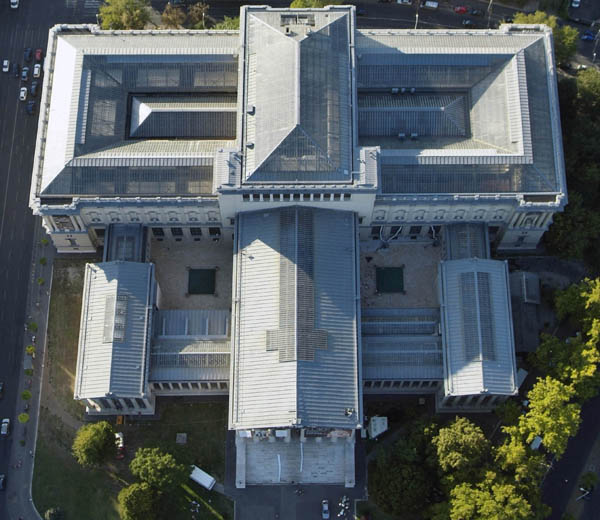 Museum of Fine arts, hungary, Budapest, aerial photography